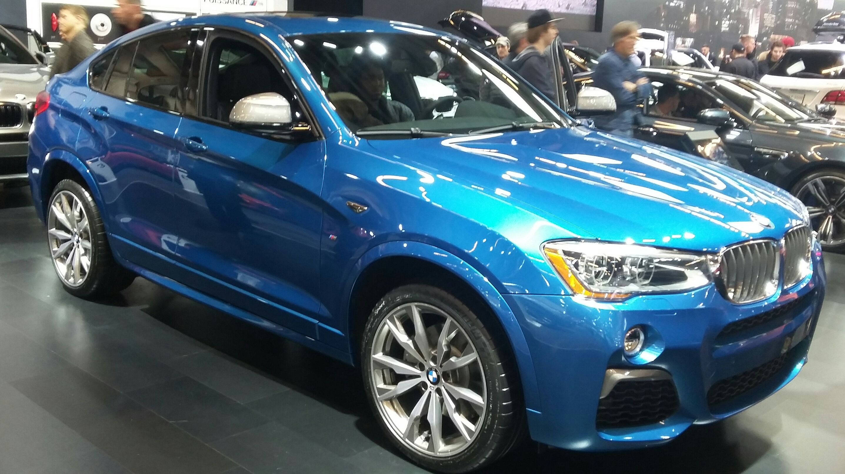 2016 BMW X4 M photographed in Montreal, Quebec, Canada at the Salon International de l’auto de Montréal 2016.